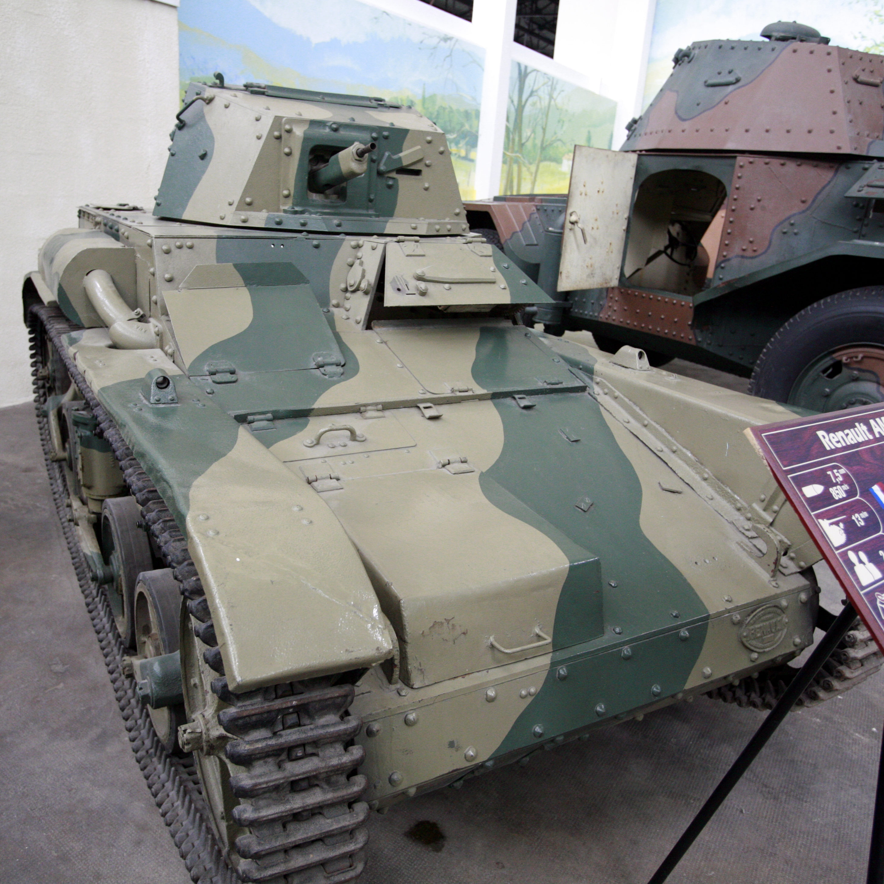 AMR 33. On display at Saumur Général Estienne museum.